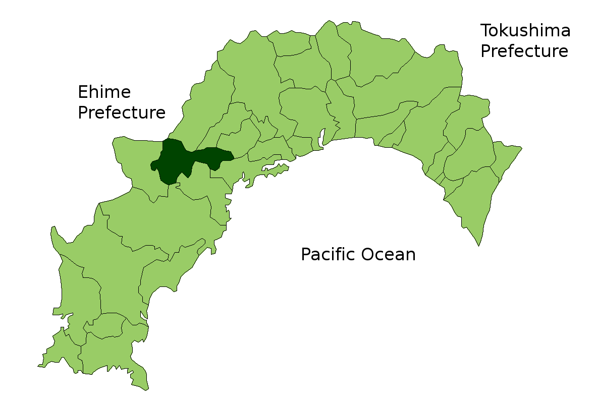 Map of Kochi Prefecture highlighting Tsuno town. Borders of map as of October, 2006. (blank map used from [1]) See also Image:KochiMapCurrent.png